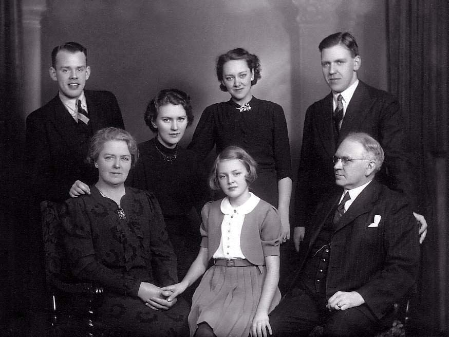 L-r: Bo Stefan, Ragnhild Sandberg Anderson, Gudrun Anderson Öfverholm, Ingegärd Stefanson (Klum), Birgit Anderson (Ridderstedt), Stig Stefanson & Stefan Anderson, as released by image owner FamSACPlace: Ludvika, Sweden